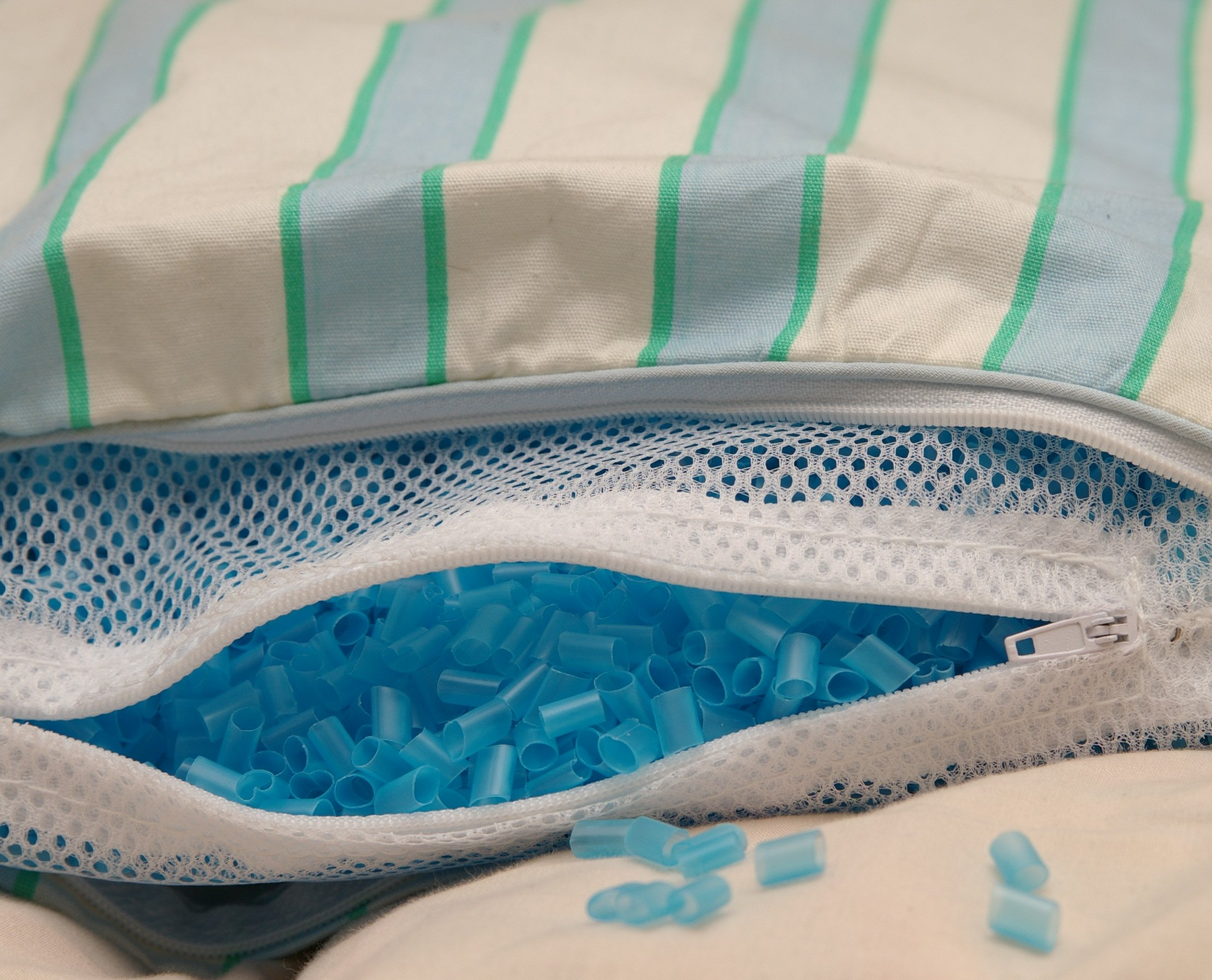 A "pipe pillow" is full of little plastic tubes in a mesh sack, then covered with a pillow case.